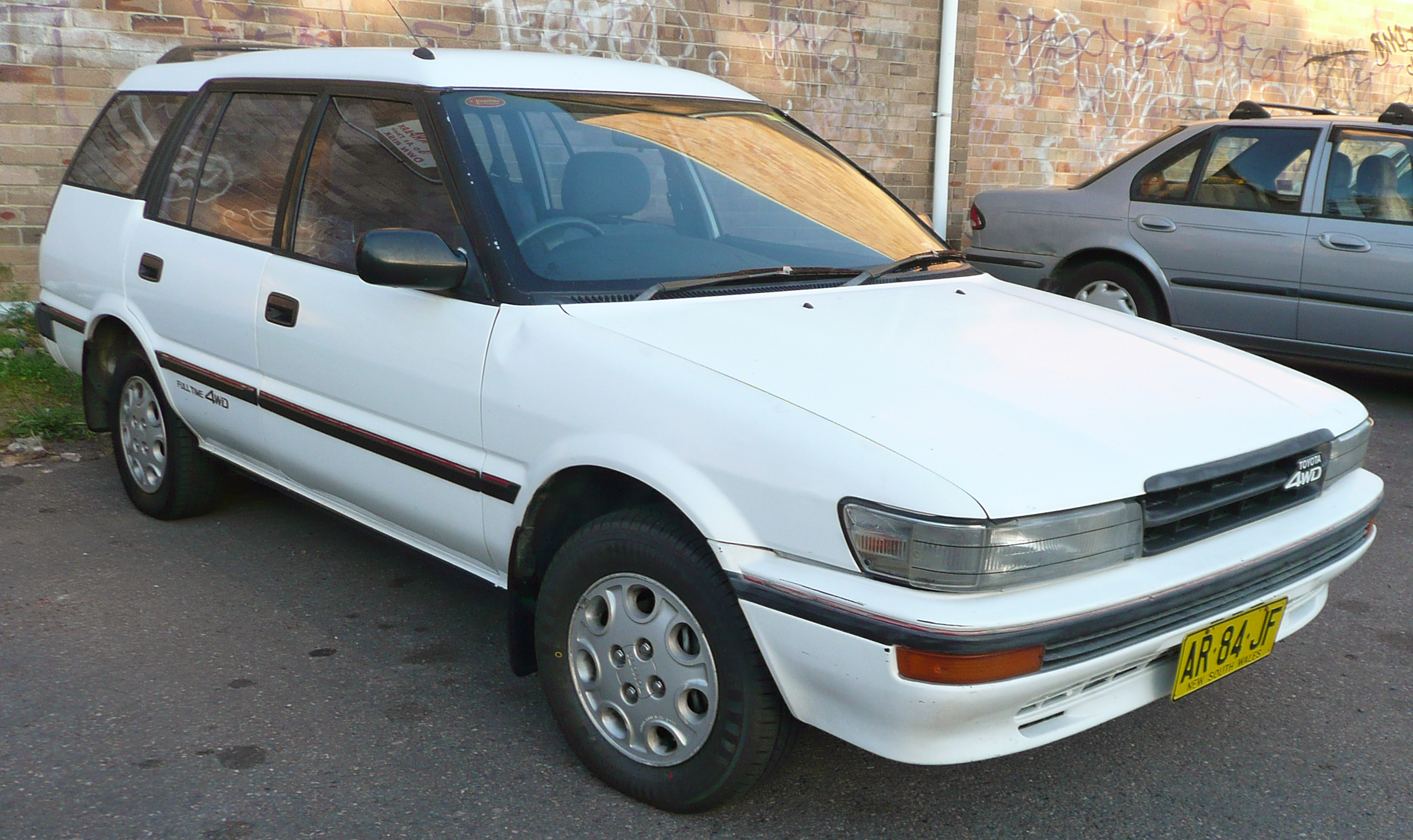 1988 Toyota Corolla (AE95R) SR5 station wagon. Photographed in Sutherland, New South Wales, Australia.